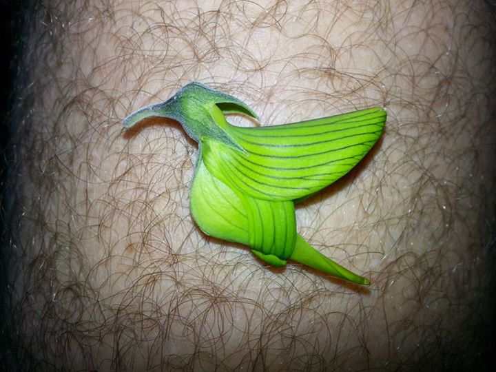 The green bird flower resembles a hummingbird.